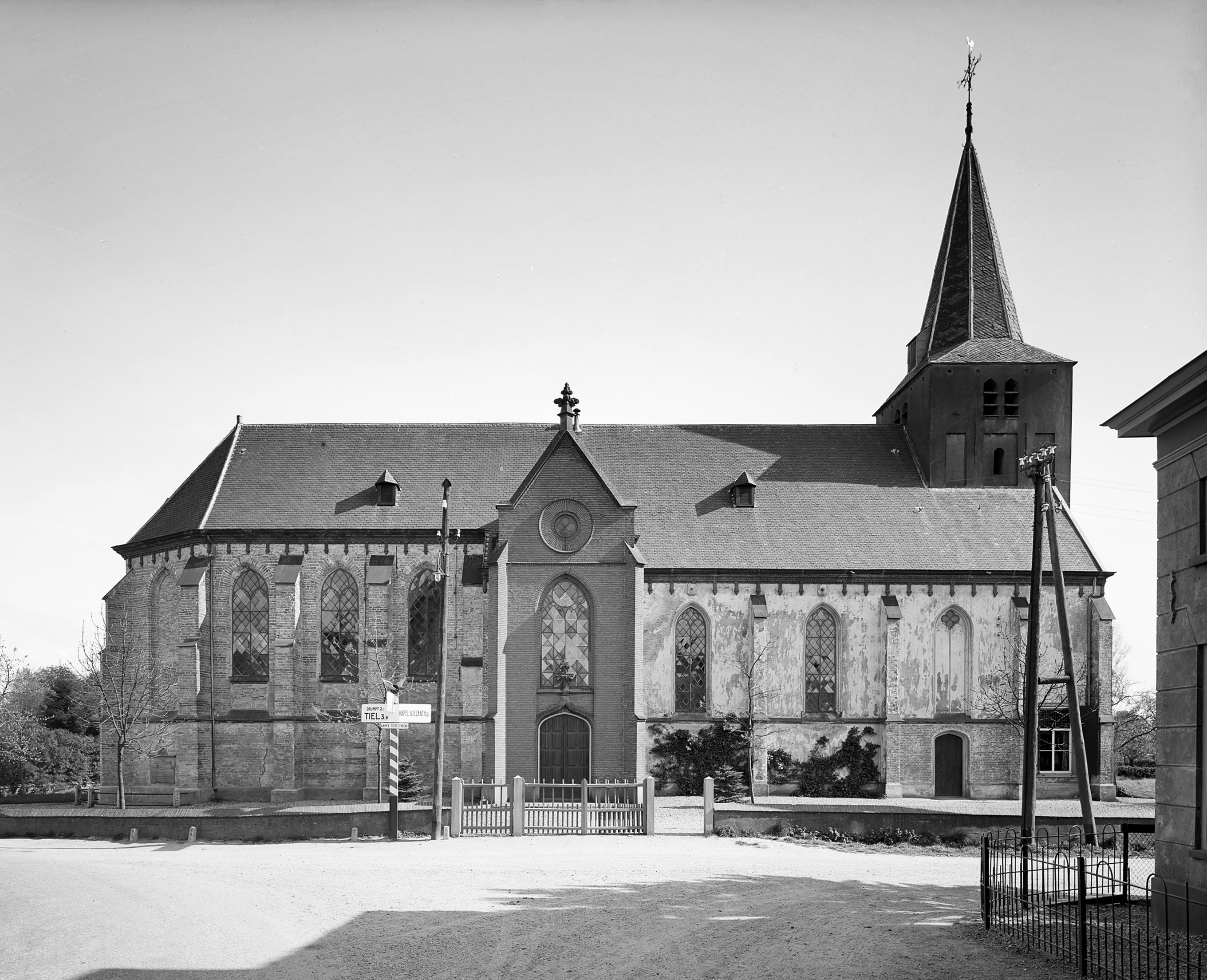 Picture of the church Sint-Lambertus in the Dutch village Kerk-Avezaath. The exact date the picture was taken remains unknown. In 1938, a central gate made out of bricks was erected, in honour of the 40-year reign of the then Dutch queen Wilhelmina. The gate contains a clock in between the years 1898 and 1938. Since this gate is missing in this picture, only a low fence is visible, the picture could at best originate from early in the year 1938. In the picture one can see the north side of the church, the side facing the open road. The road sign in front of the fence contains the distances to nearby cities/villages: Drumpt 2.2, Tiel 3.9 (to the left) and Kapel-Avezaath 2.5 (to the right). The sign pointing in the direction of the photographer, most propably directs to the villages Erichem and Buren.